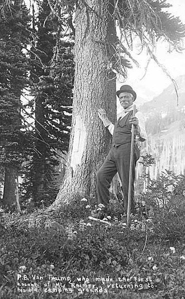 A photo of P.B. Van Trump (1839 - 1916), from the website of the University Libraries - University of Washington